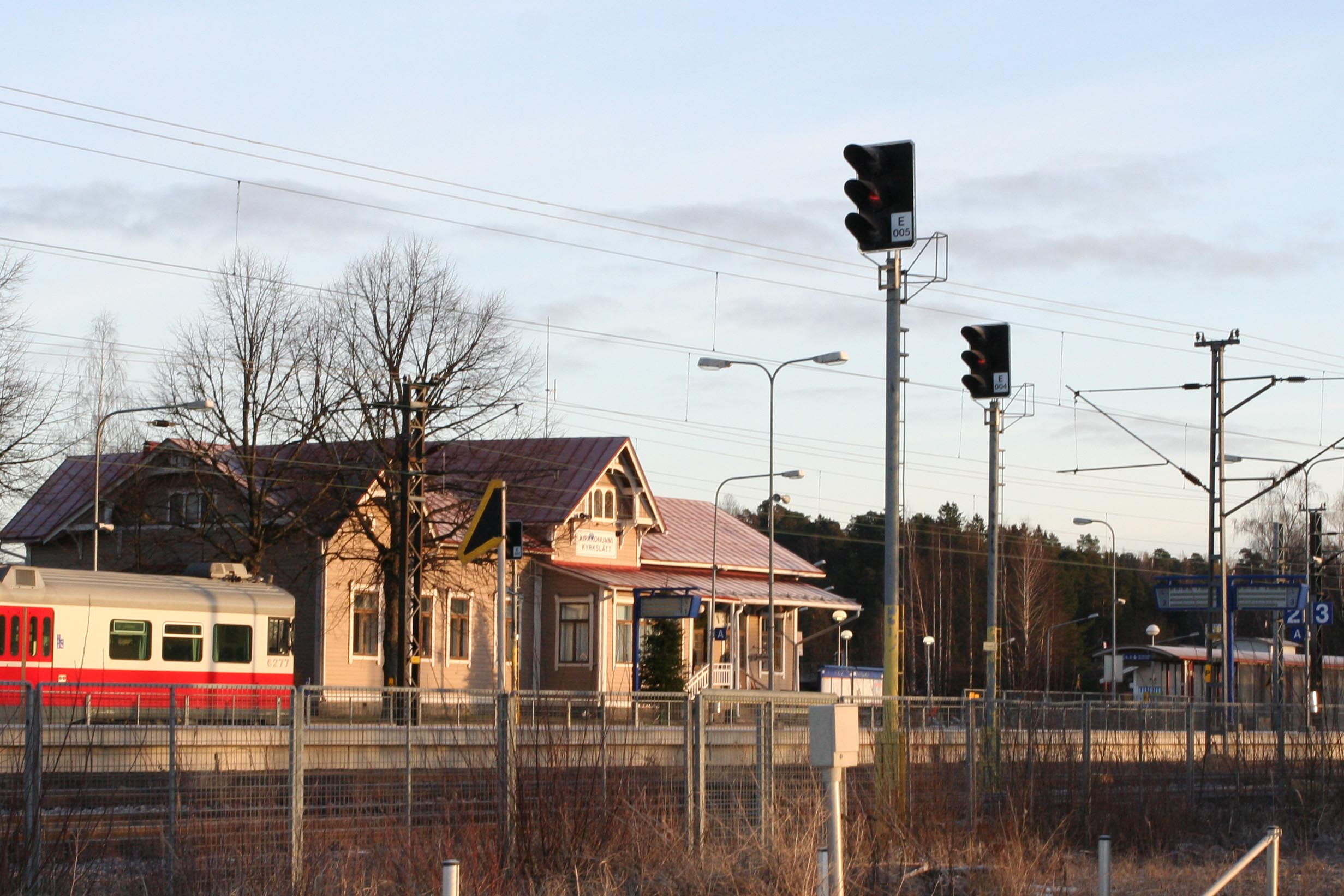 Kirkkonummi railway station in Finland